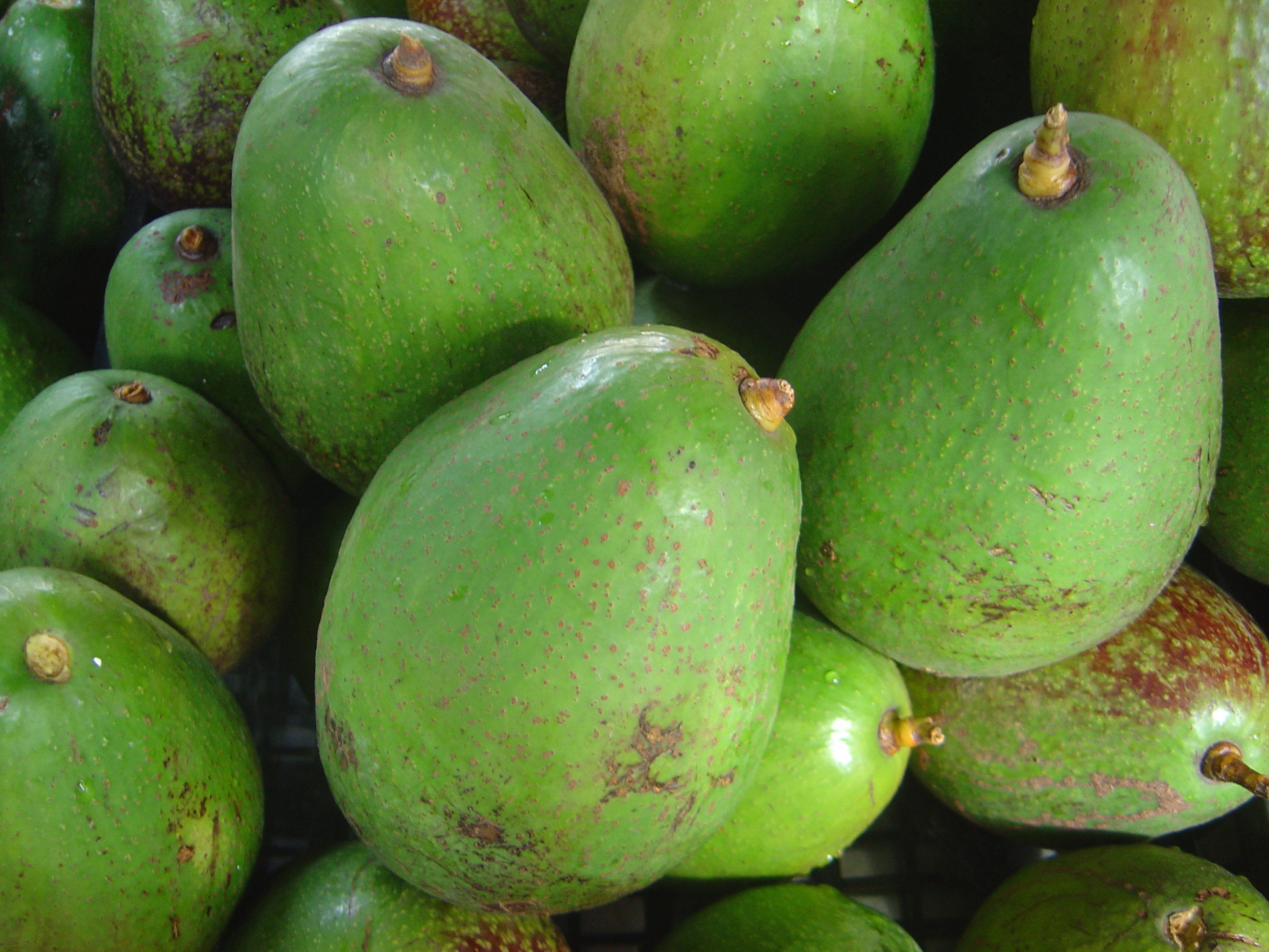 Persea americana (avocados), unknown variety, on sale on Réunion Island